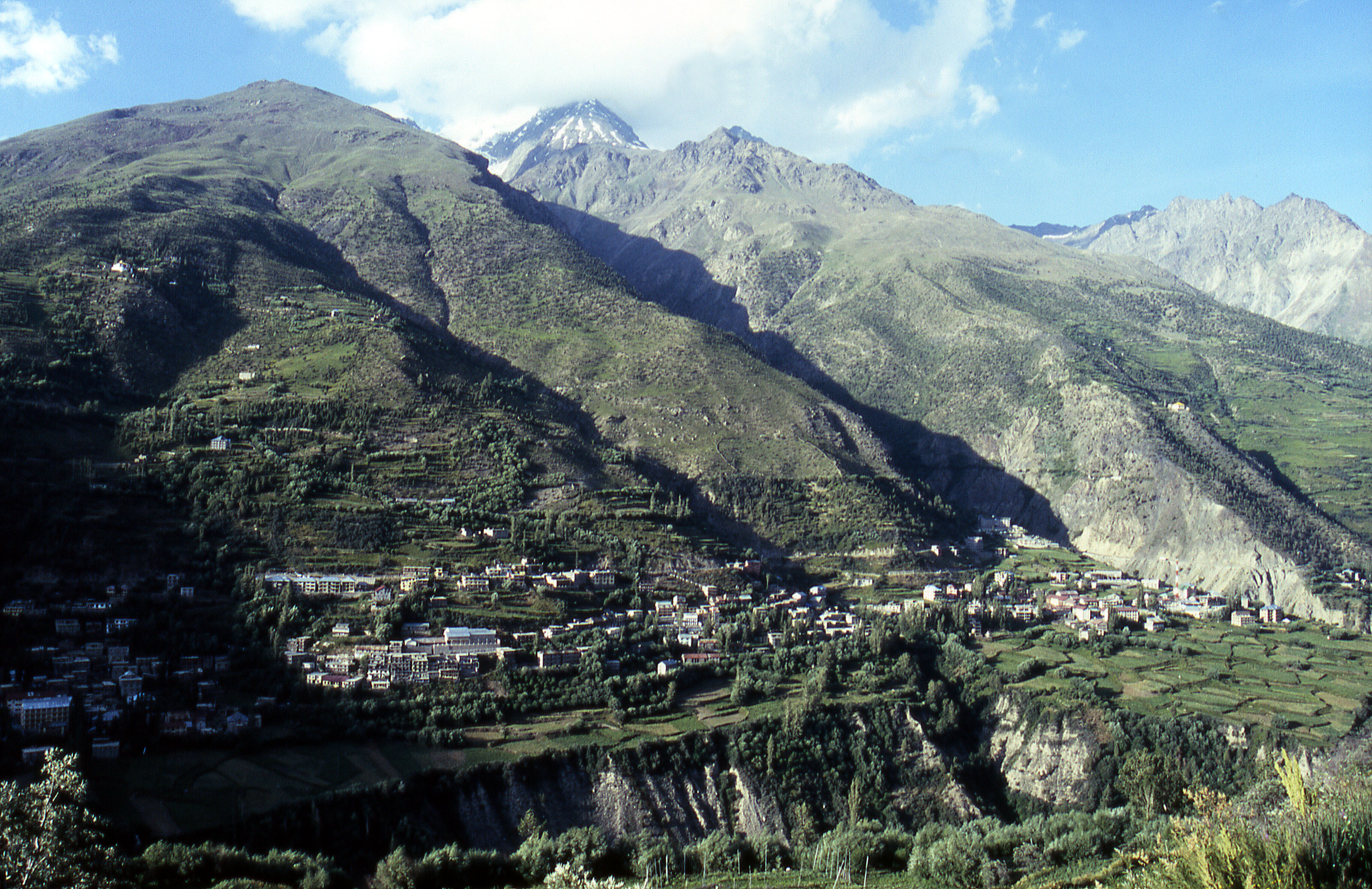 Keylong, capital of Lahul and Spiti, a district in Himachal Pradesh, Indien